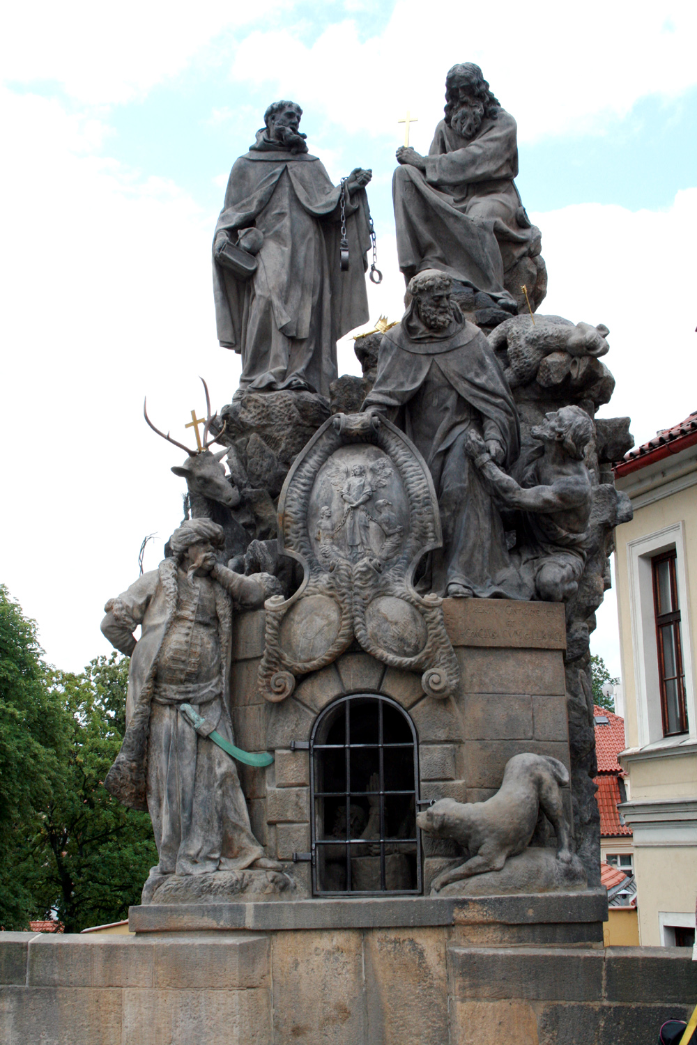 Česky: Prague, Charles Bridge. Sculpture of John of Matha, Félix de Valois and Saint Ivan by F. M. Brokof.